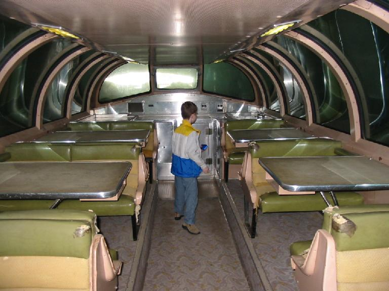 The upper level interior of a dome car, this one configured as a dining area on display at the National Railroad Museum in Green Bay, WI.